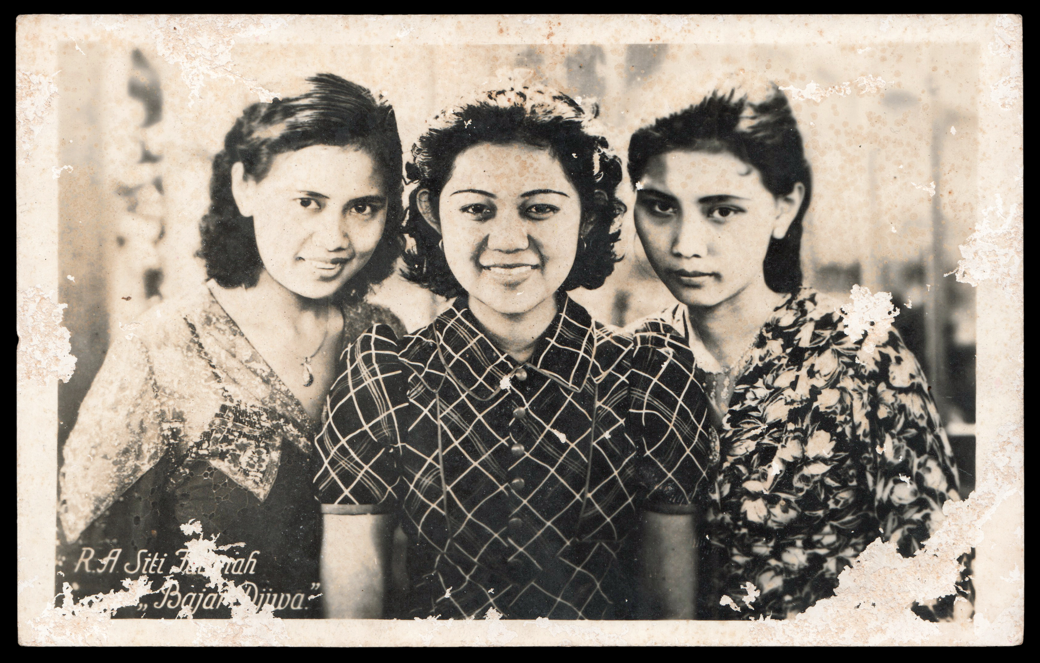 Djoewariah, RS Fatimah, and Soelastri in Bajar dengan Djiwa (1941), postcard